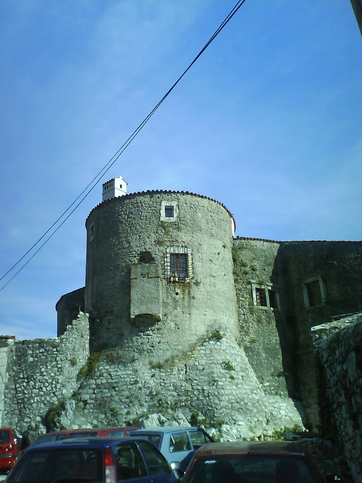 The castle of Bakar